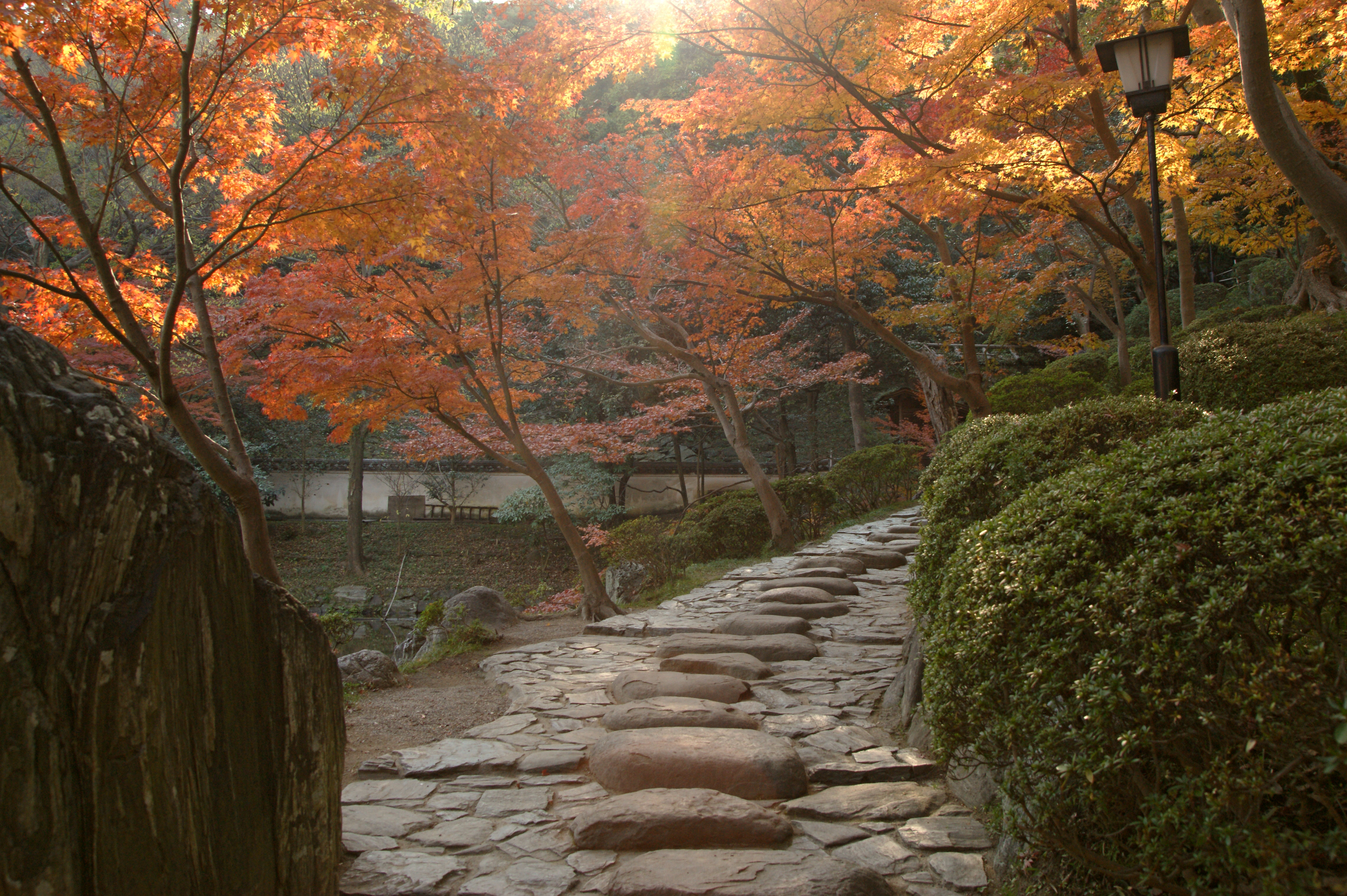 Wakayama Castle Nishinomaru Garden, Wakayama, Wakayama prefecture, Japan